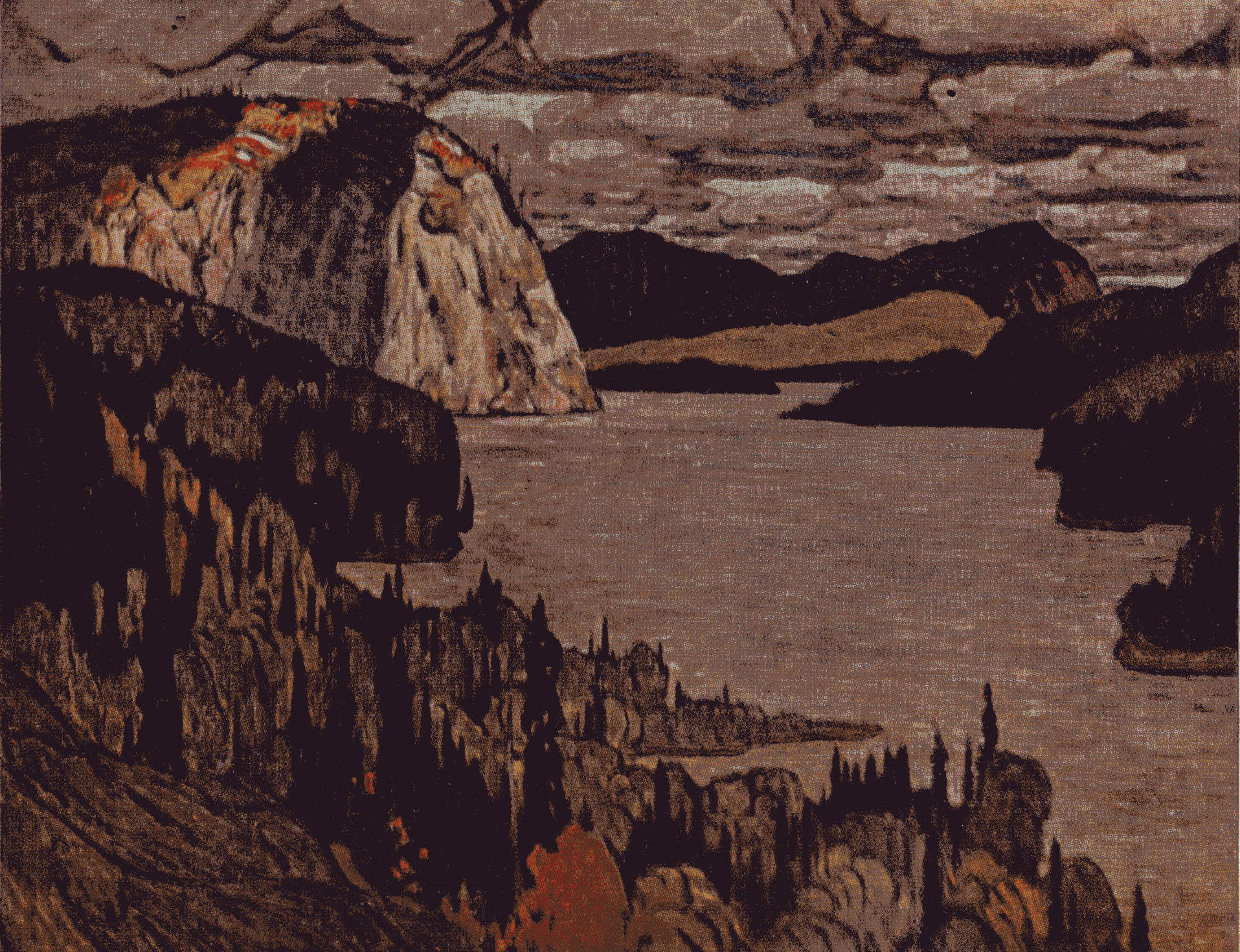 The Solemn Land